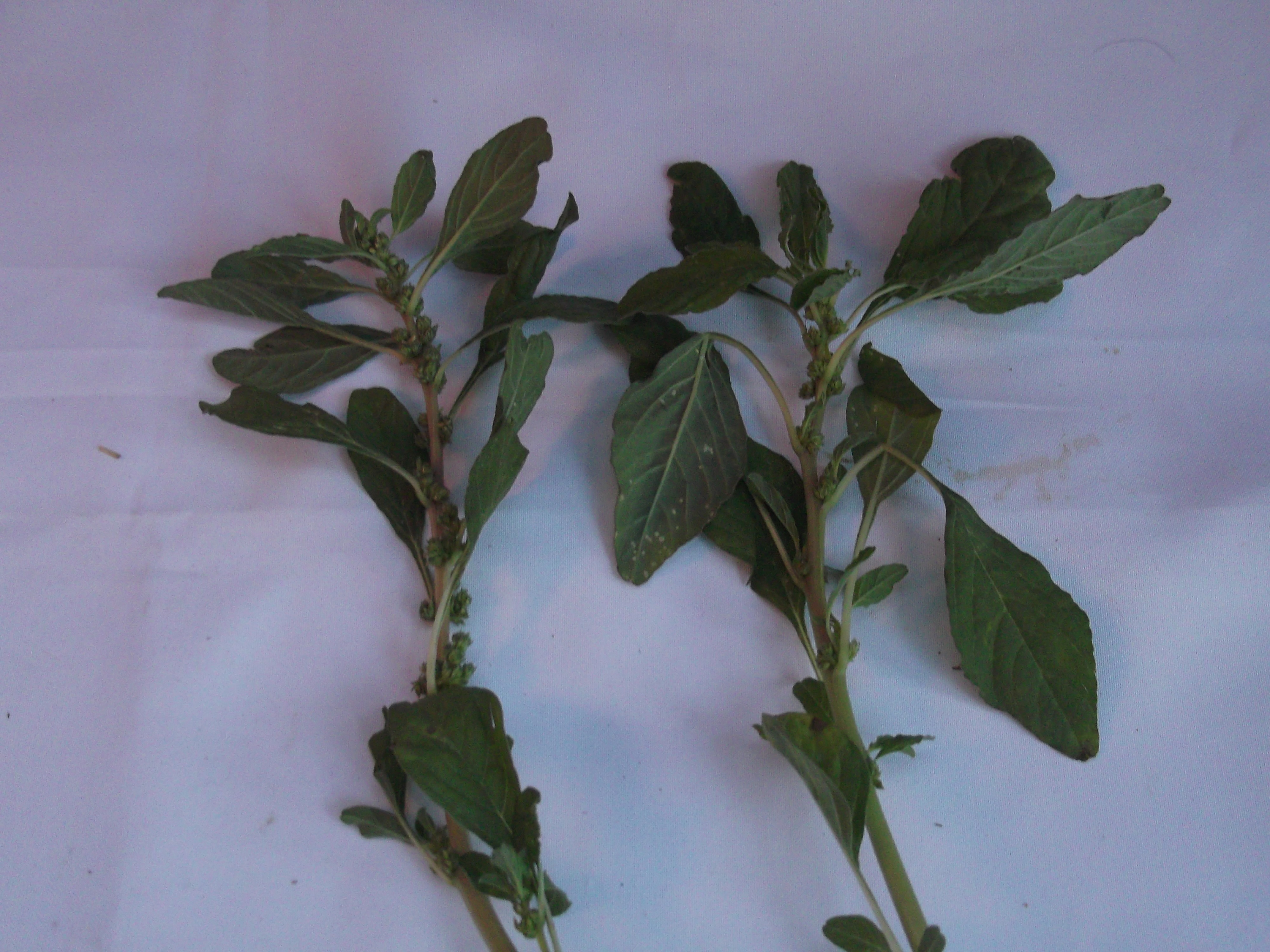 Green vegetable.